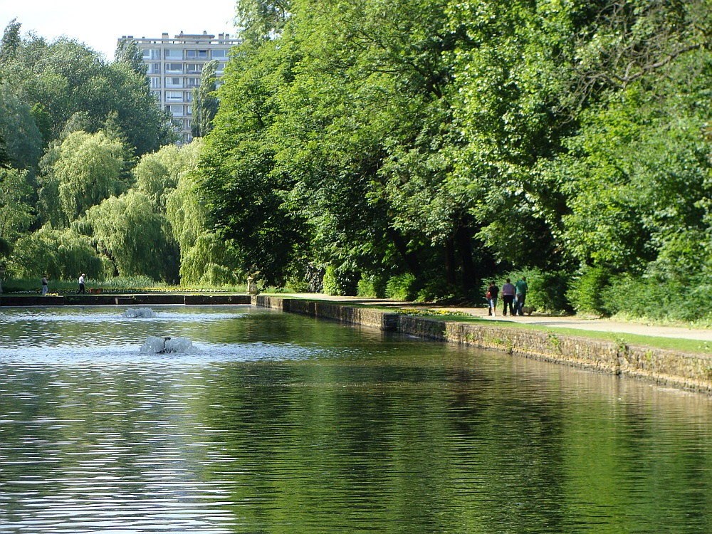 Stadspark (spiegelvijver)